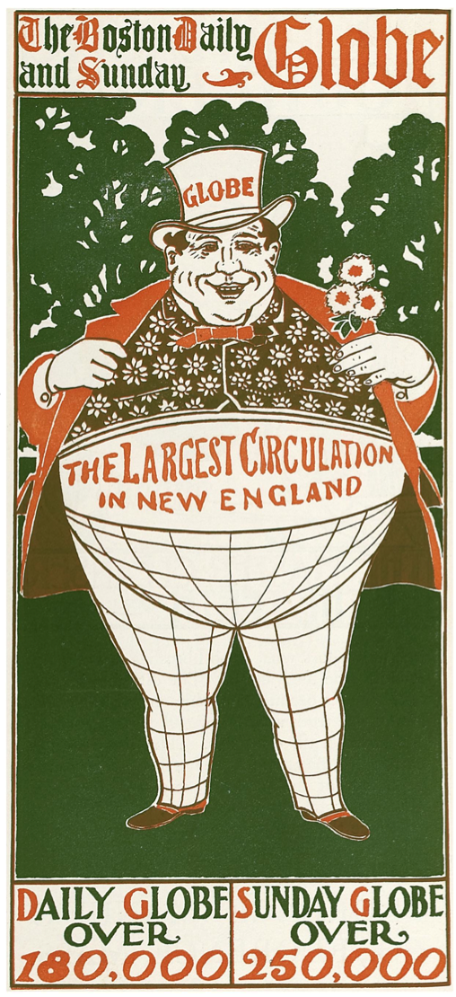 advertisement from "Bradley His Book" v.1 no.2 (Springfield, Massachusetts, USA)